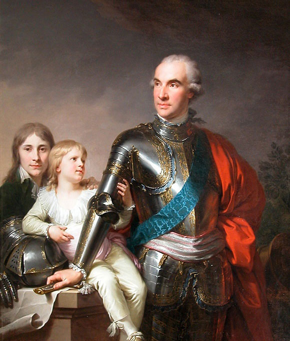 Portrait of the Count Stanislas Felix Potocki (1745-1805) and his two sons Felix-Georg (1776-1810) and Stanislas (1782-1831)